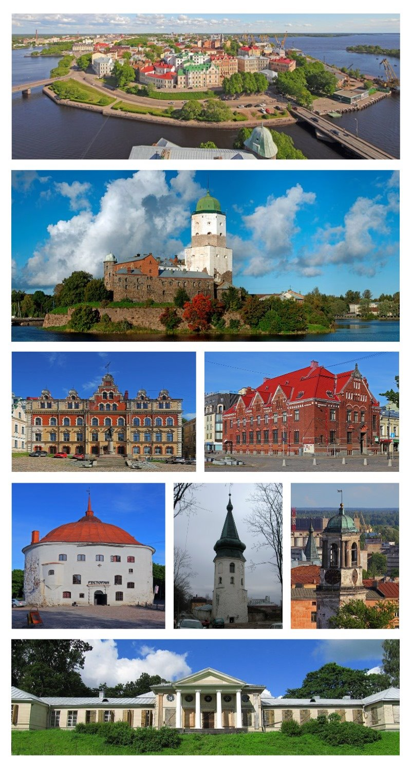 A montage of Vyborg city